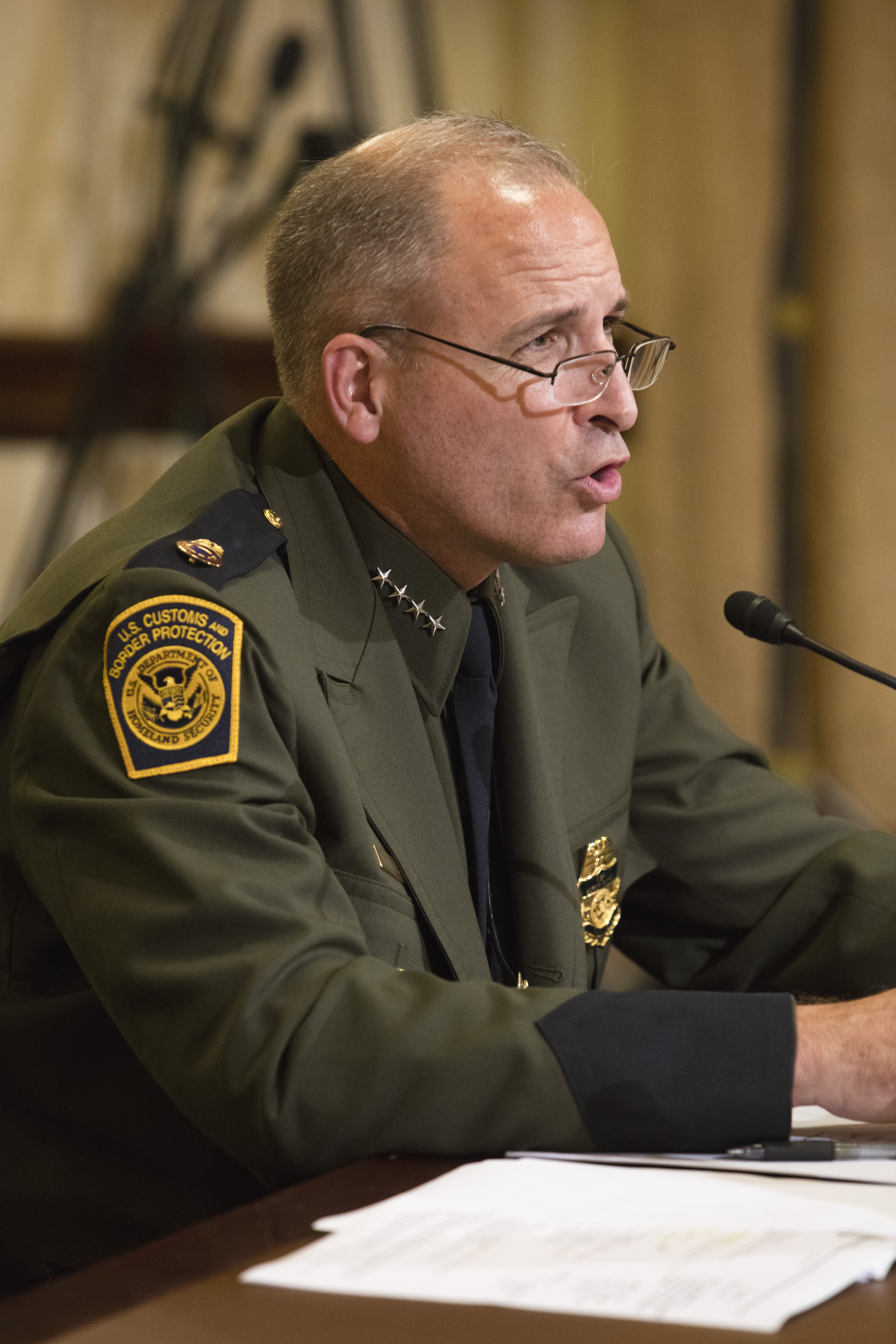 091316: Chief of the USBP, Mark A. Morgan testifies at his first hearing as United States Border Patrol Chief with U.S. Customs and Border Protection. His testimony was presented at the Cannon House Office building before the House Homeland Security Committee, Border and Maritme Security Subcommittee on interior checkpoints and defense-in-depth. Photographer: Donna Burton